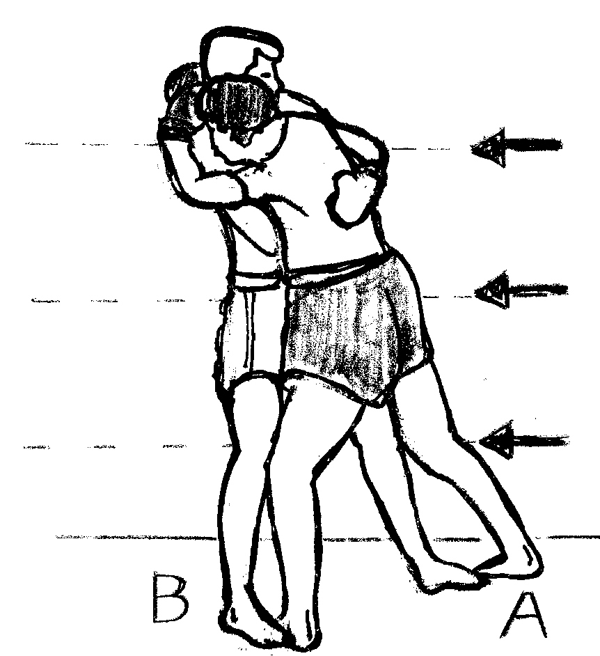 accroche1.jpg